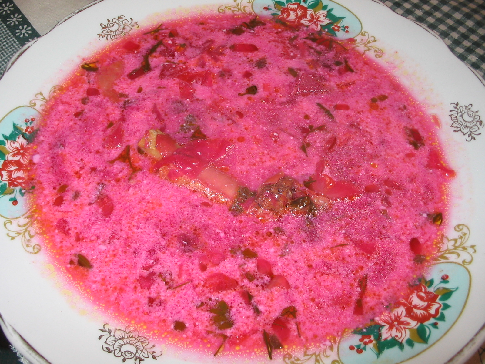 Borscht